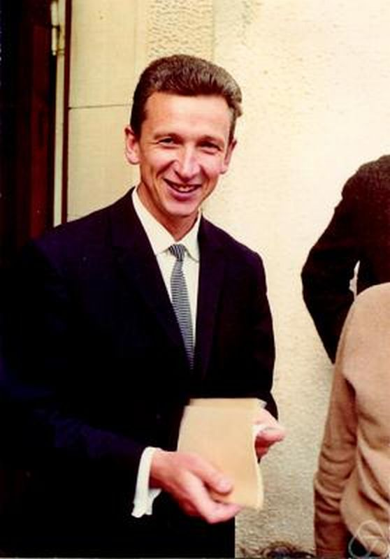 Alexander Borovkov, Oberwolfach 1968, Photo by Konrad Jacobs